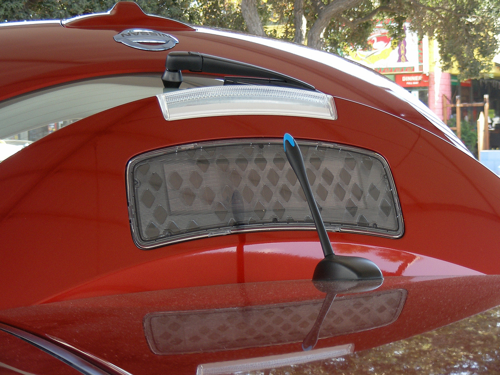 Detail of the Nissan LEAF SL Solar Spoiler, Drive Electric Tour test drive in Santa Monica, California